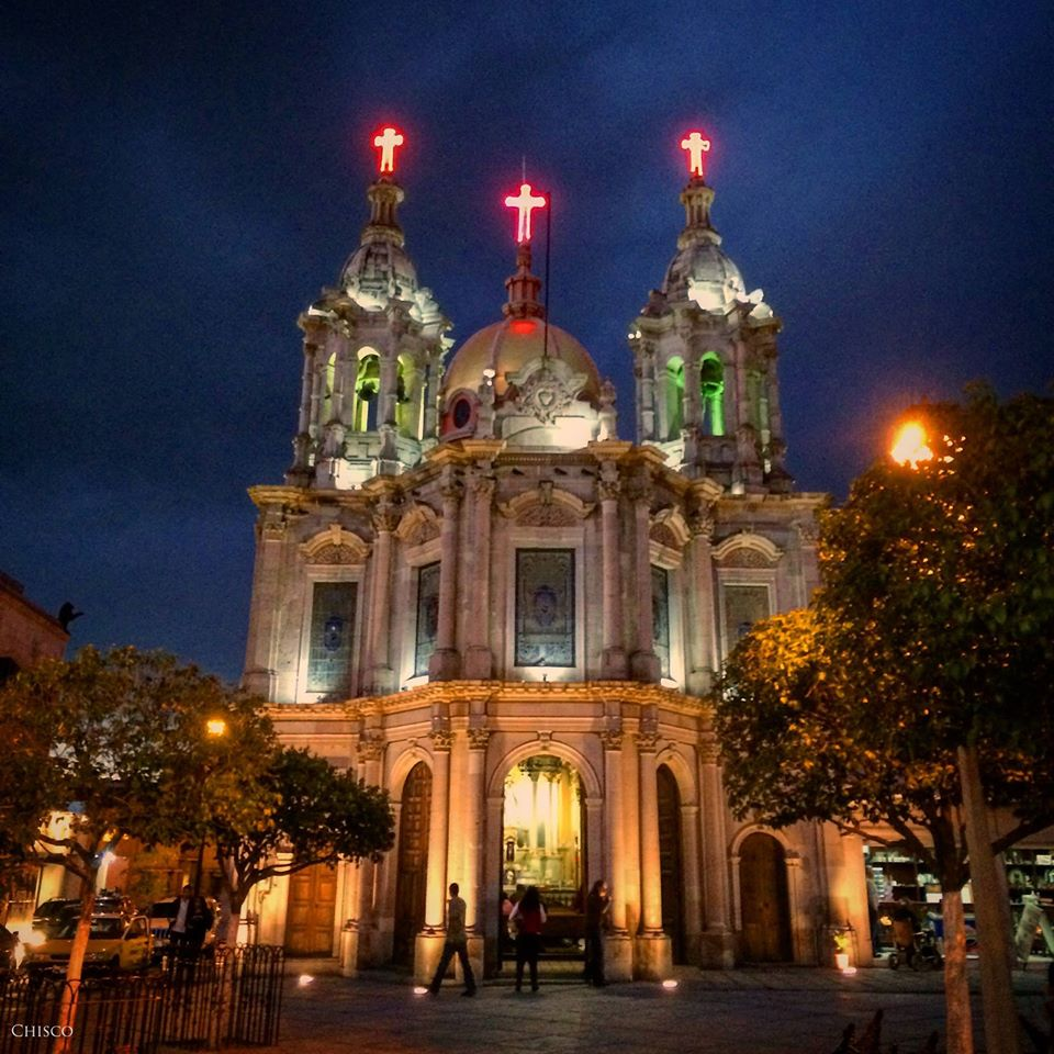 town in mexico